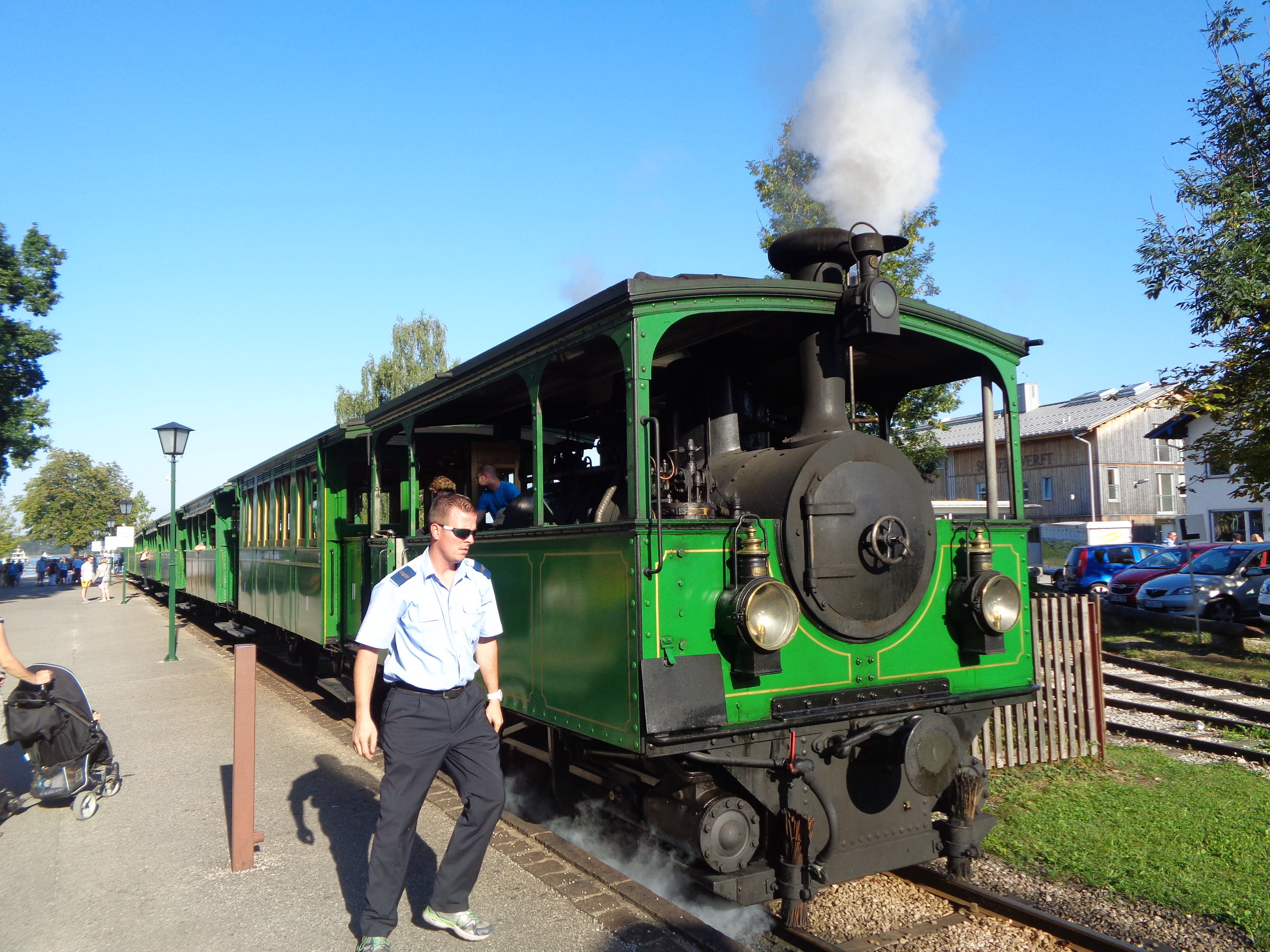 Narrow gauge Chiemsee-Railway at Prien harbour, Bavaria, Germany